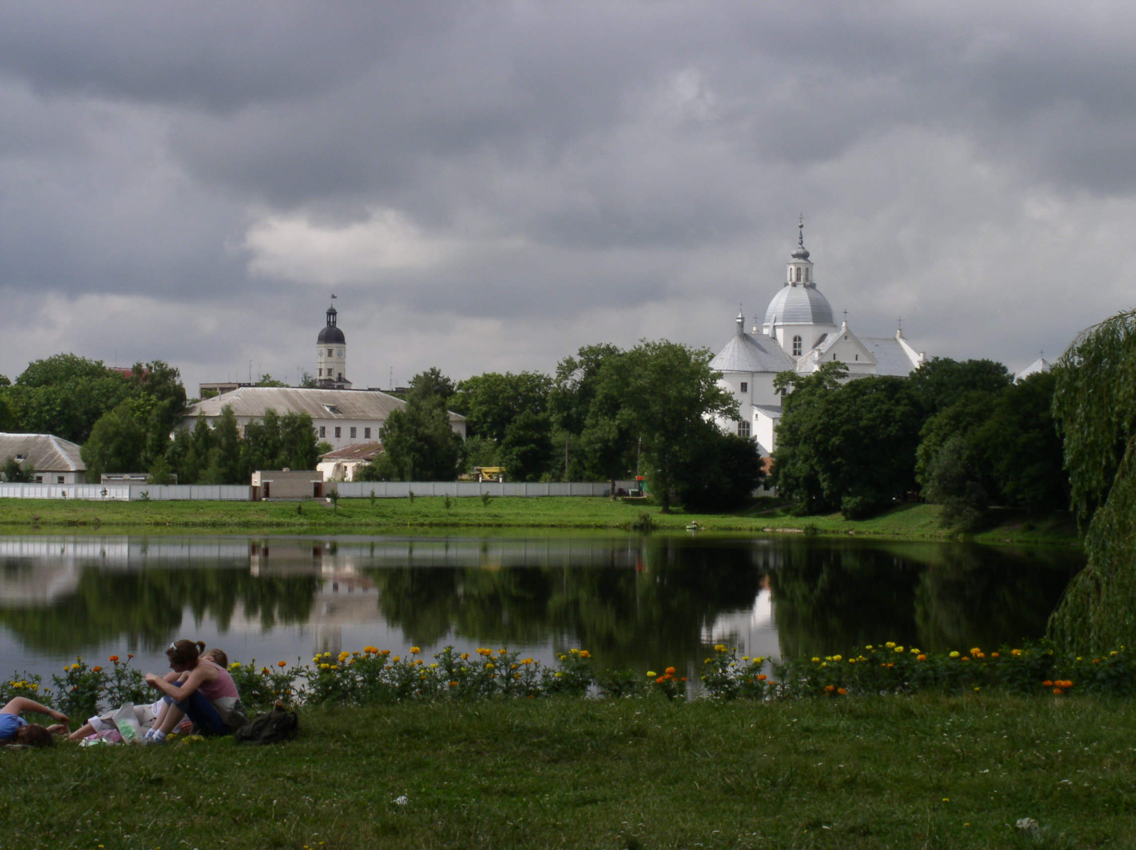 Panorama, Niasvizh, Belarus.